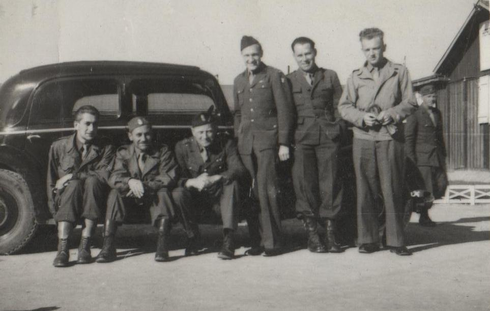 Edmund Harwas (first from the right) - Polskie Służby Wartownicze (Polish Guard Service) Germany 1946